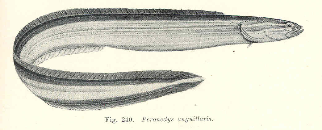 Peronedys anguillaris Subject: Bleniidae, Peronedys Tag: Fish